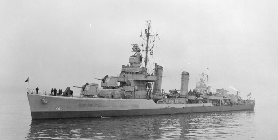 The U.S. Navy destroyer USS Mervine (DD-489) off the New York Navy Yard (USA), 23 January 1943.